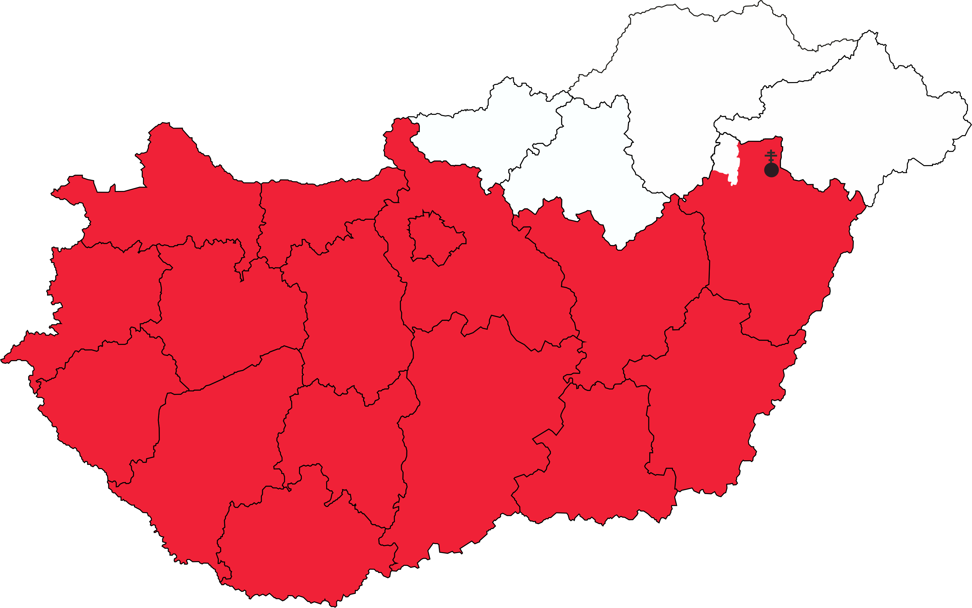 The map of the Greek Catholic Diocese of Hajdúdorog, Hungary. Originally the territory of the diocese didn't cover the Western parts of the country, but the pope extended the bishop of Hajdúdorog's jurisdiction over the whole country in 1968 - except the area of the Apostolic Exarchate of Miskolc.